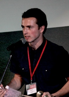 Winner of IDFF "Saratov Sufferings" 2011